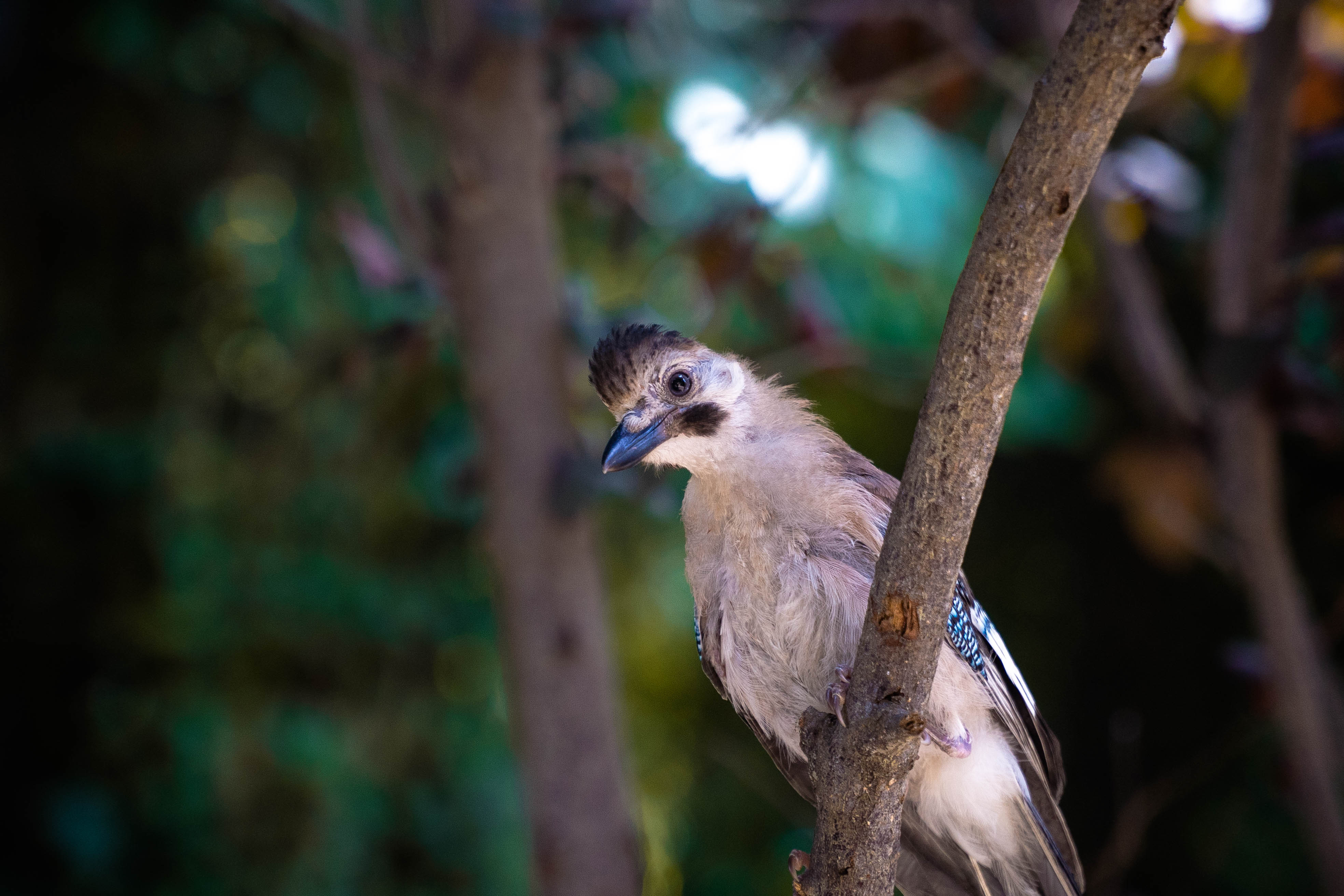 Garrulus glandarius AKA The Eurasian jay sitting on a branch. Location Haifa Educational Zoo